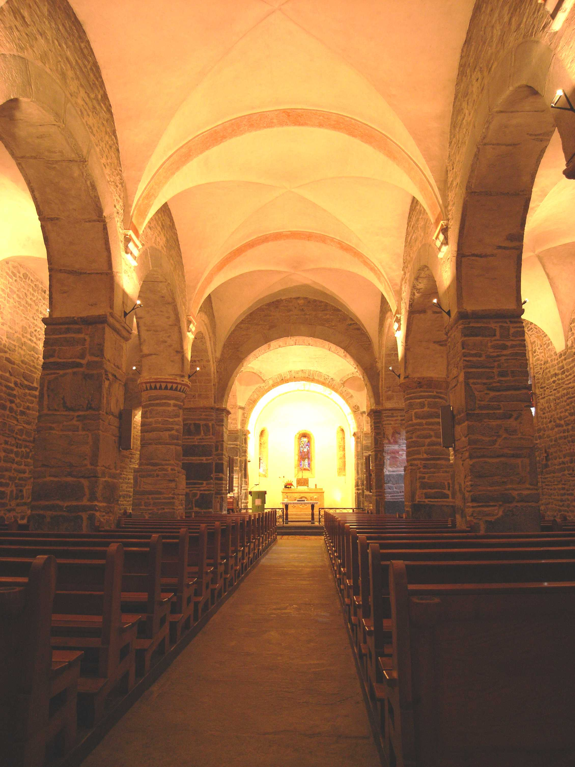 basilica Saint-Pierre-de-Clages, interior (Canton Valais, Switzerland)